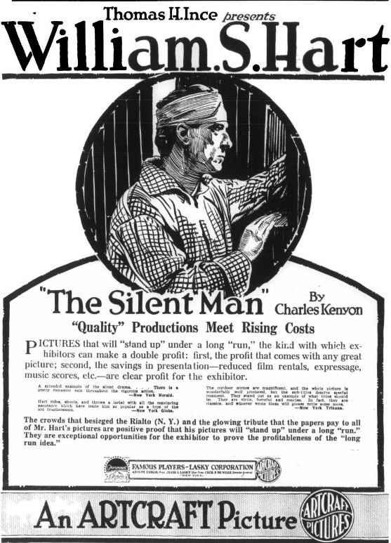 Advertisement for the American western film The Silent Man (1917) with William S. Hart, on page 48 of the December 7, 1917 Variety.